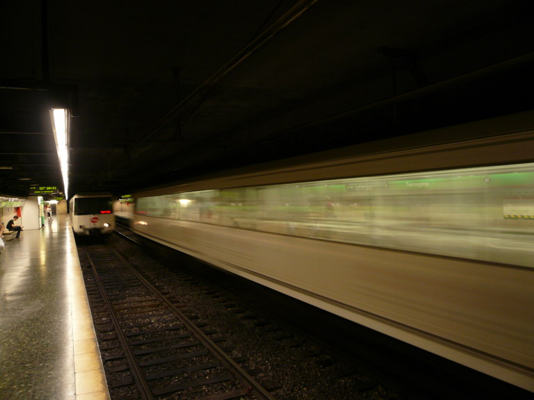 Tarragona station.